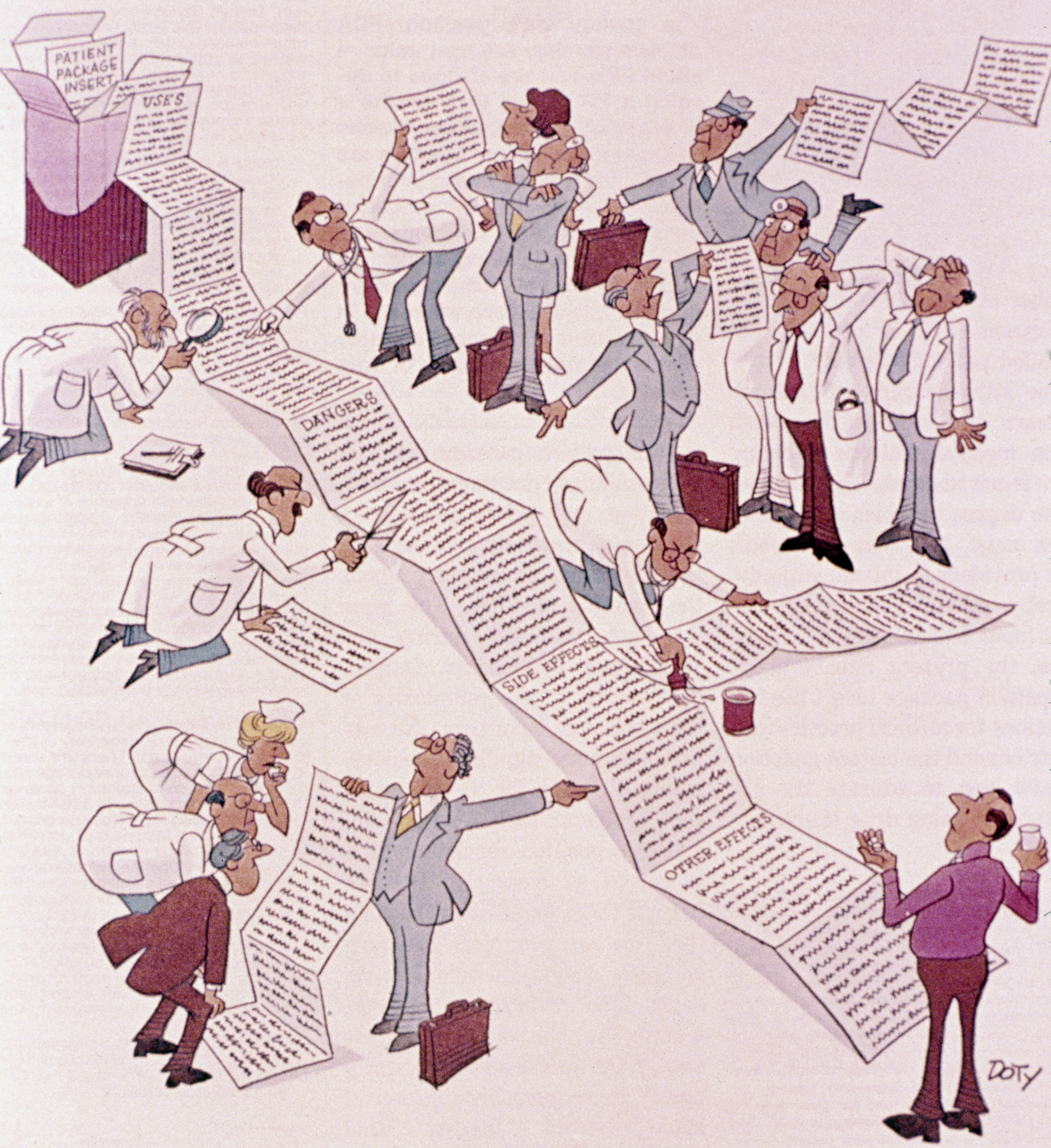 Prescriber inserts have been an essential part of drug labeling since the 1938 Act, but the first patient package insert arrived in 1968 as a means to alert those suffering from asthma and related disorders to adverse events linked to isoproterenol inhalers. For more information about FDA history visit